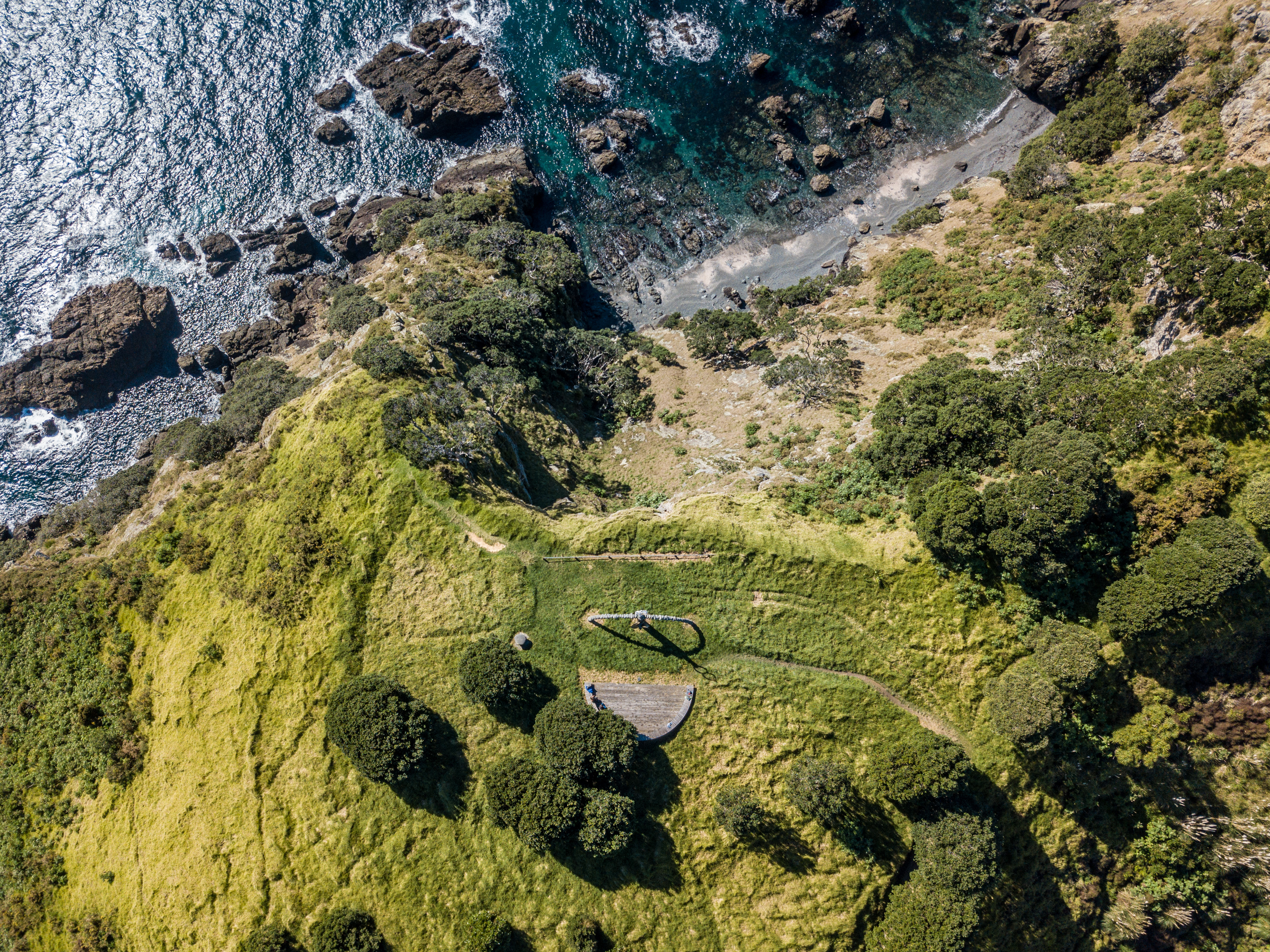 Rainbow Warrior Memorial Arial Shot